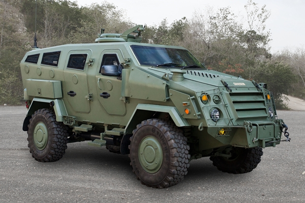 First Win MRAP